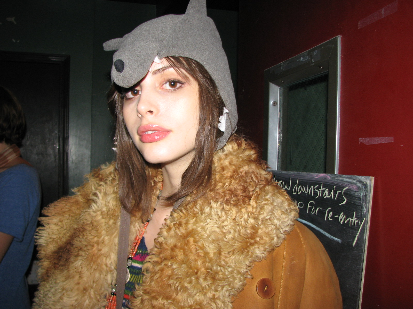 photo of model/singer Kemp Muhl, oct 22 2010, In NY